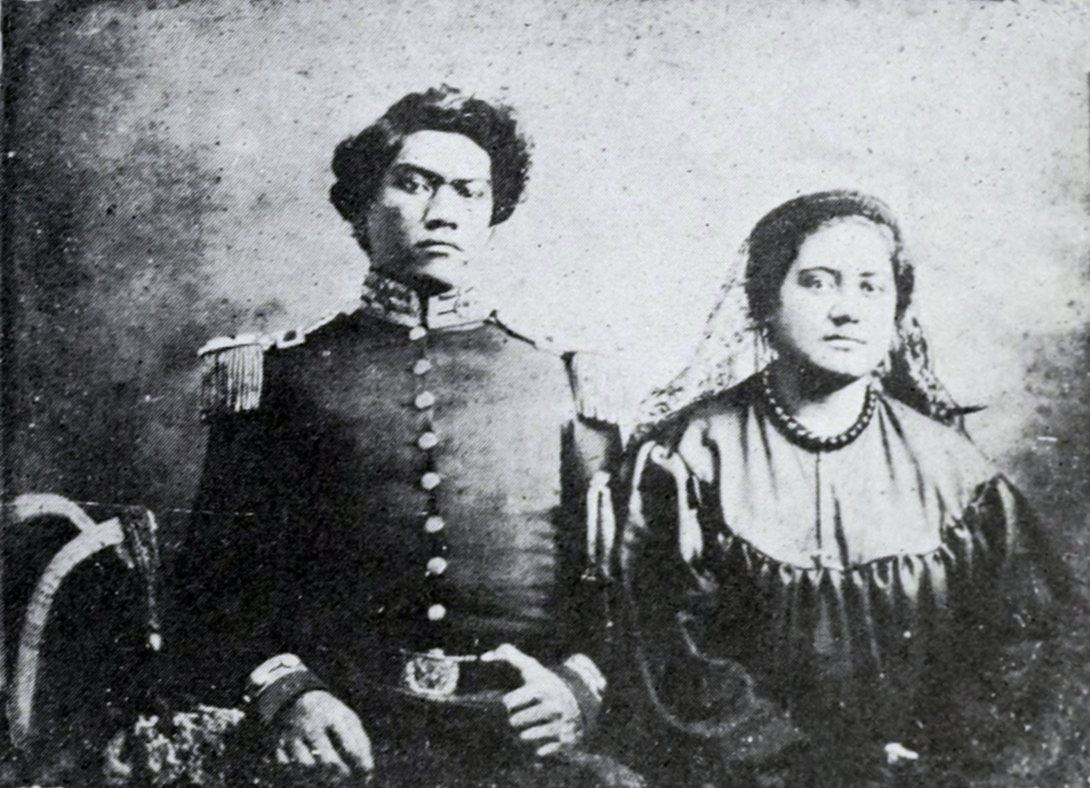 High Chief William Hoapili Kaʻauwai and High Chiefess Mary Ann Kiliwehi, uncle and aunt of Elizabeth Kahanu Kalanianaʻole. They accompanied Queen Emma on her memorable visit to London in the 1860s. From the daguerreotype collection of Elizabeth Kahanu Kalanianaʻole.